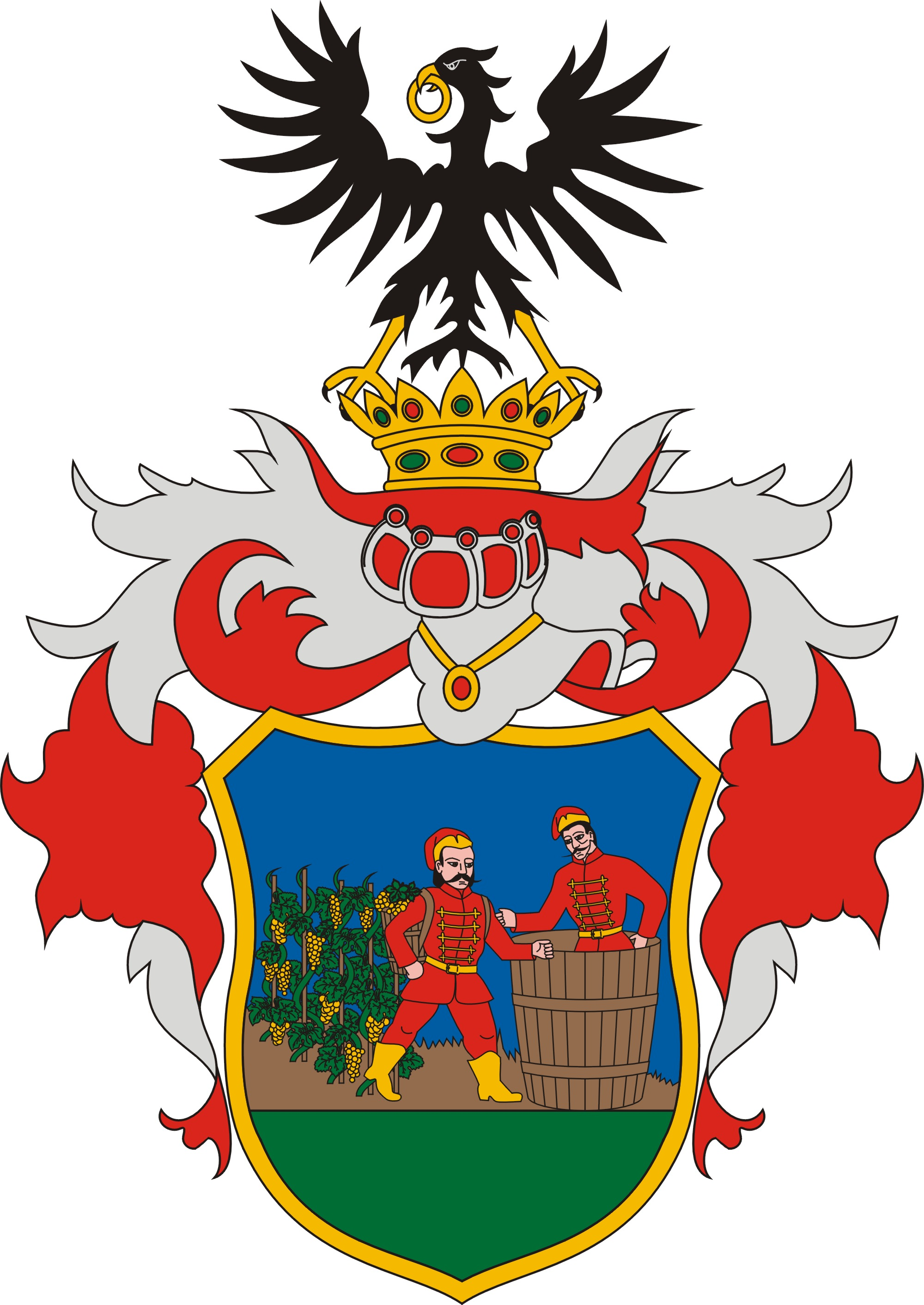 Coat of arms of Hernádszurdok, Hungary